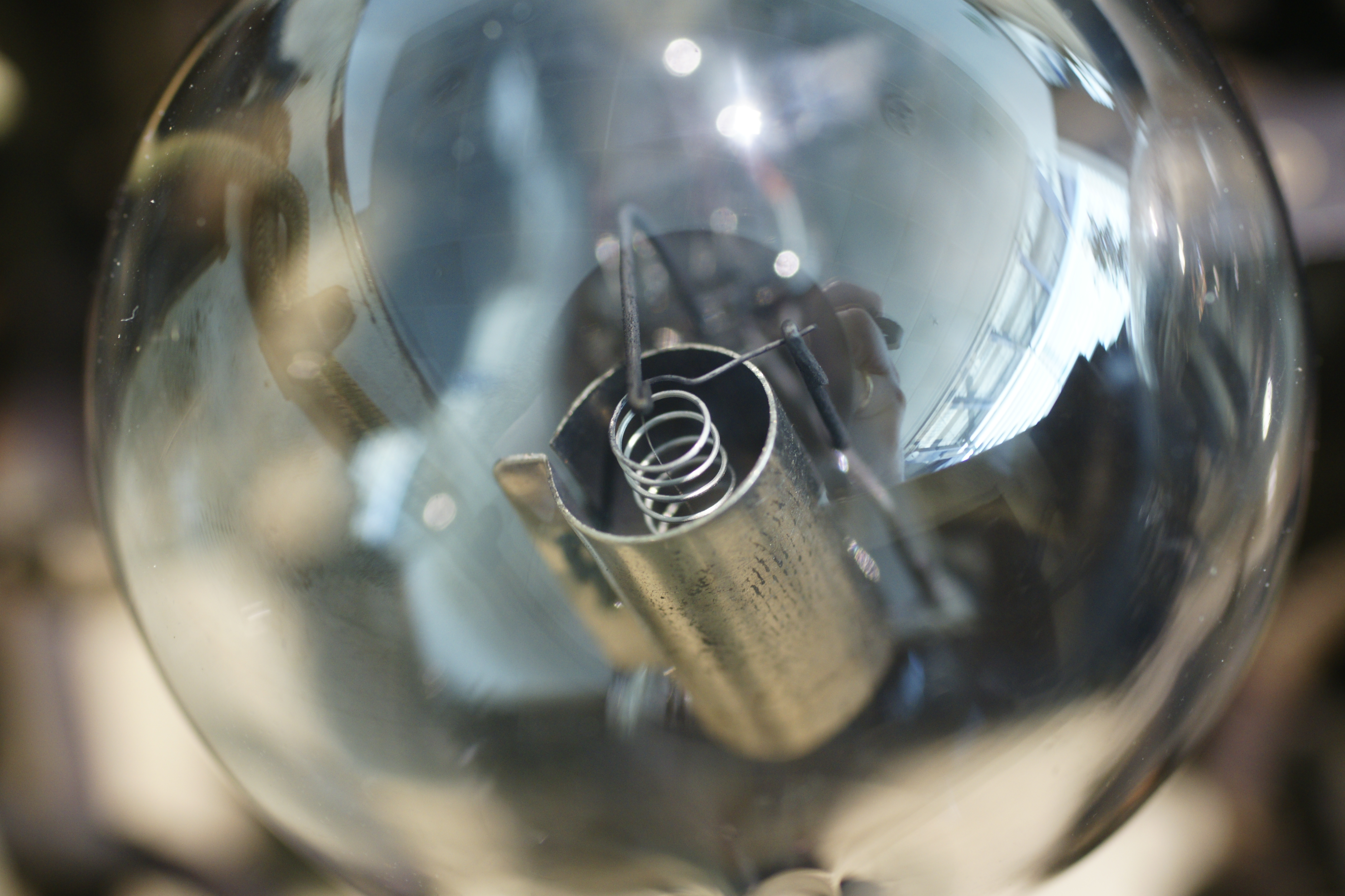 Images from ThinkTank by Sasha Taylor